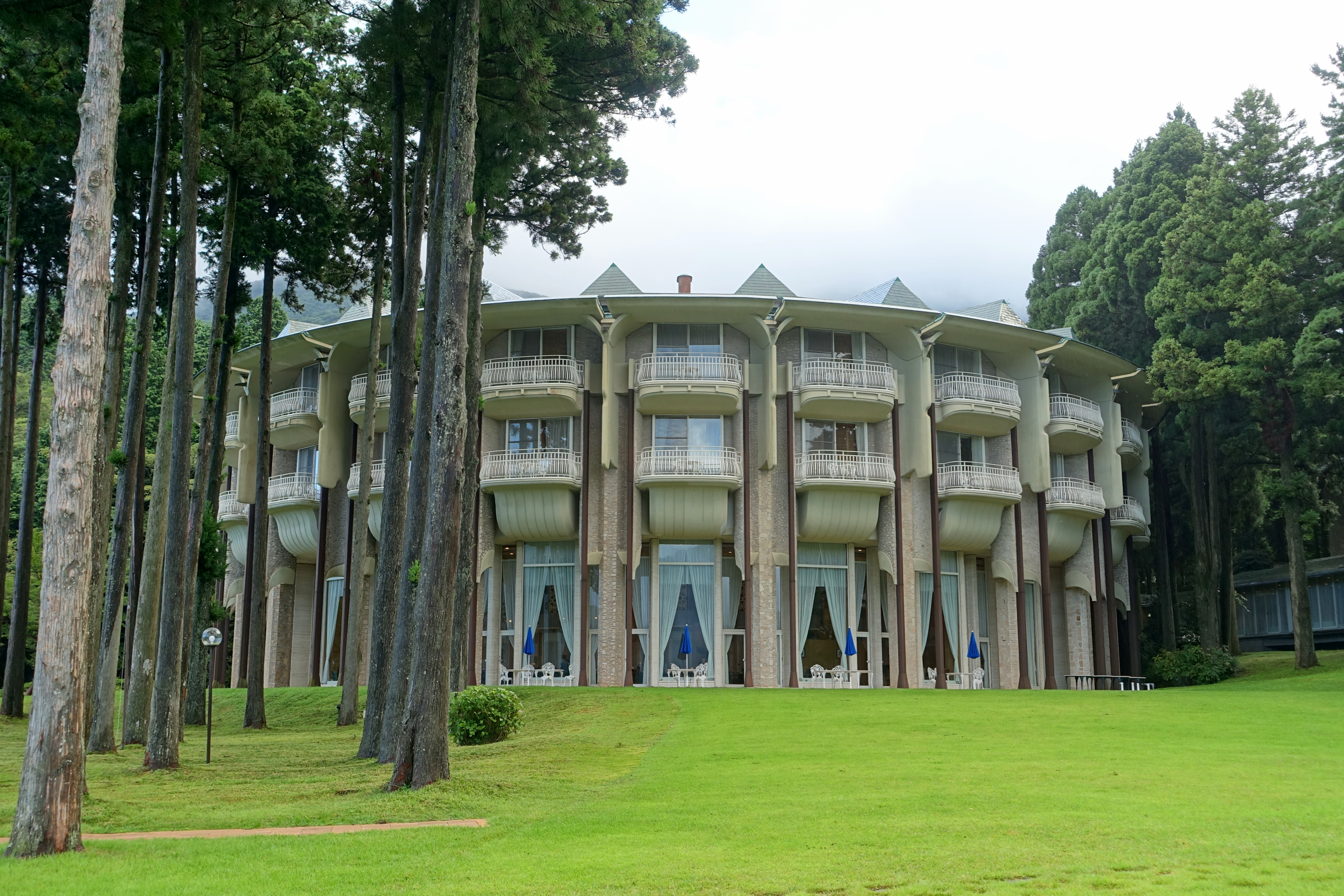 Prince Hakone Lake Ashinoko - Hakone, Japan.